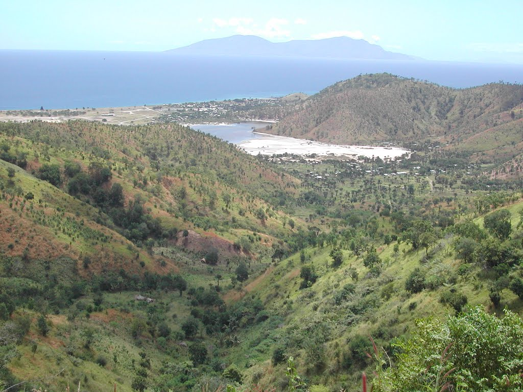 Many faces of Lake Tasitolu. view from eastern ridge with Atauro island in background